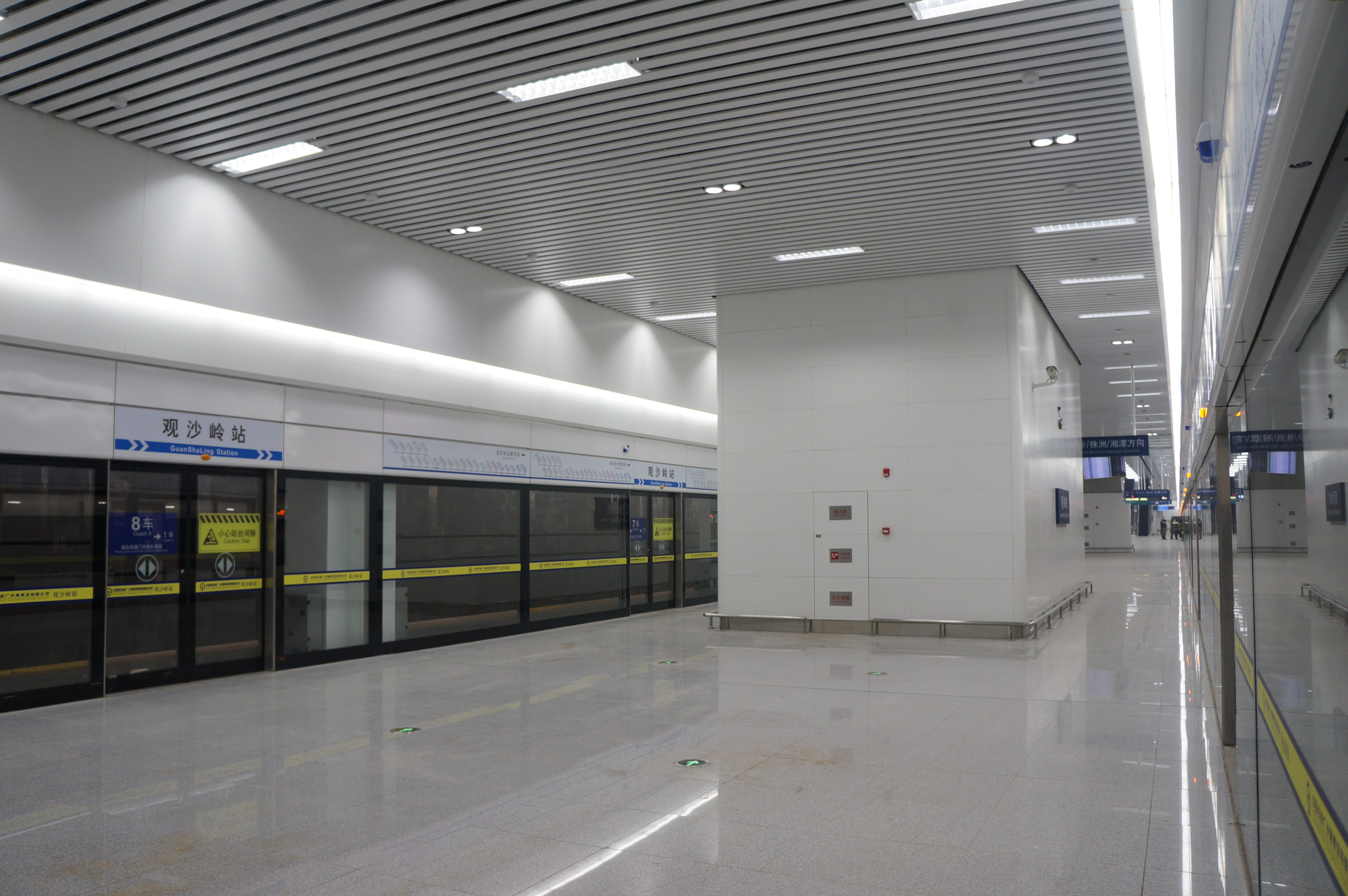 201712 Guanshaling Station